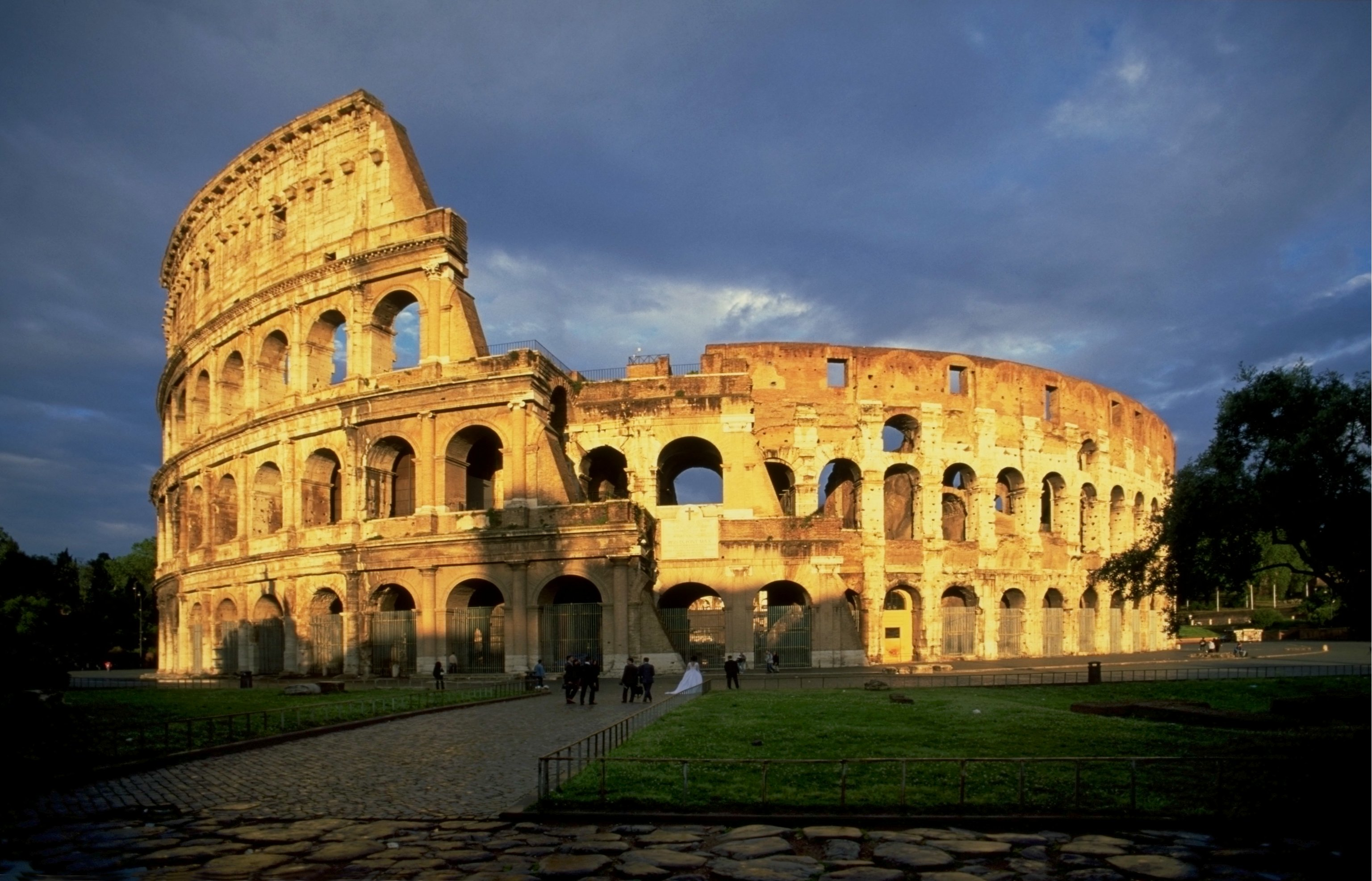 Colosseum at evening